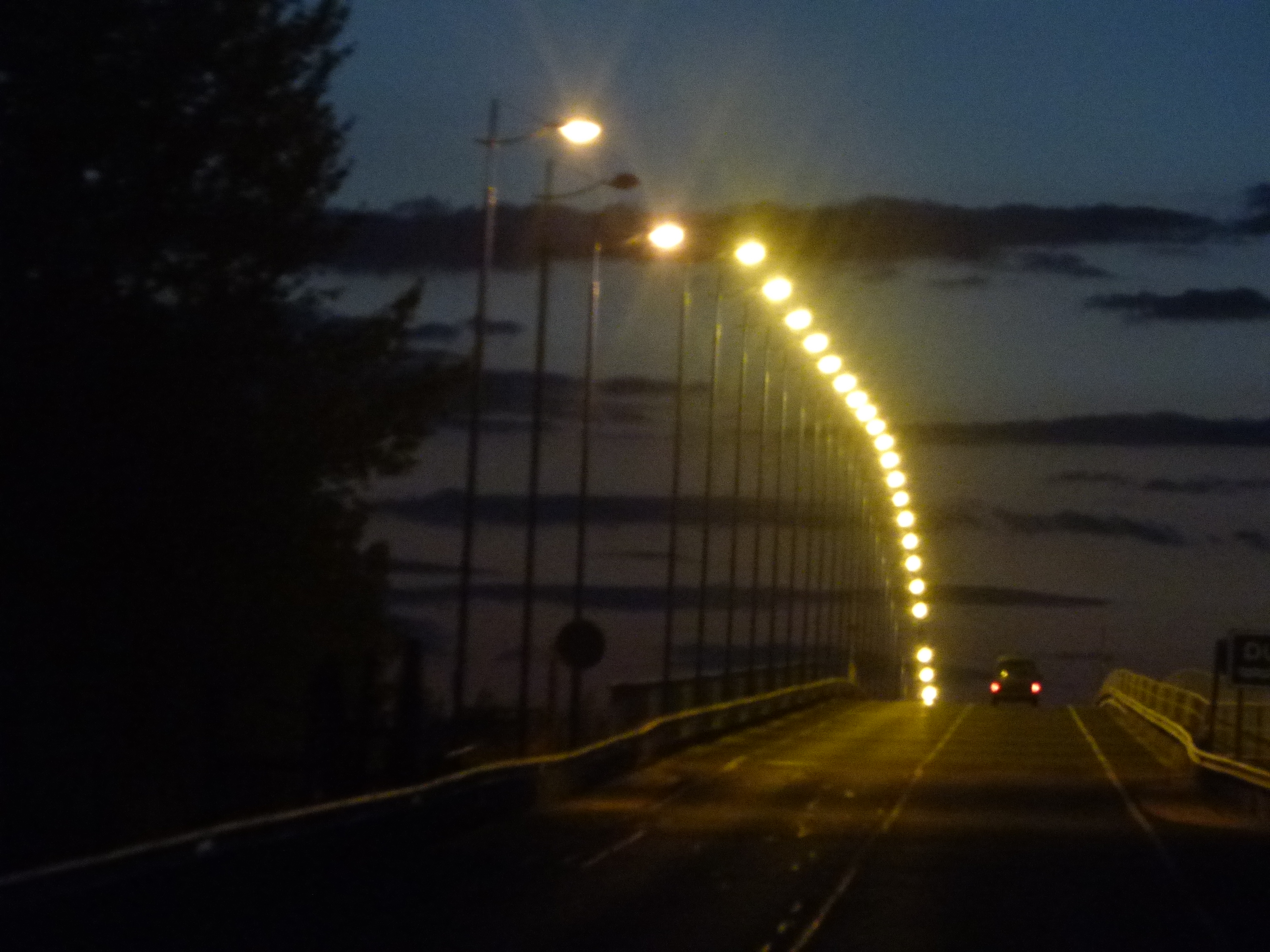 A Szent László híd lámpasora éjjel